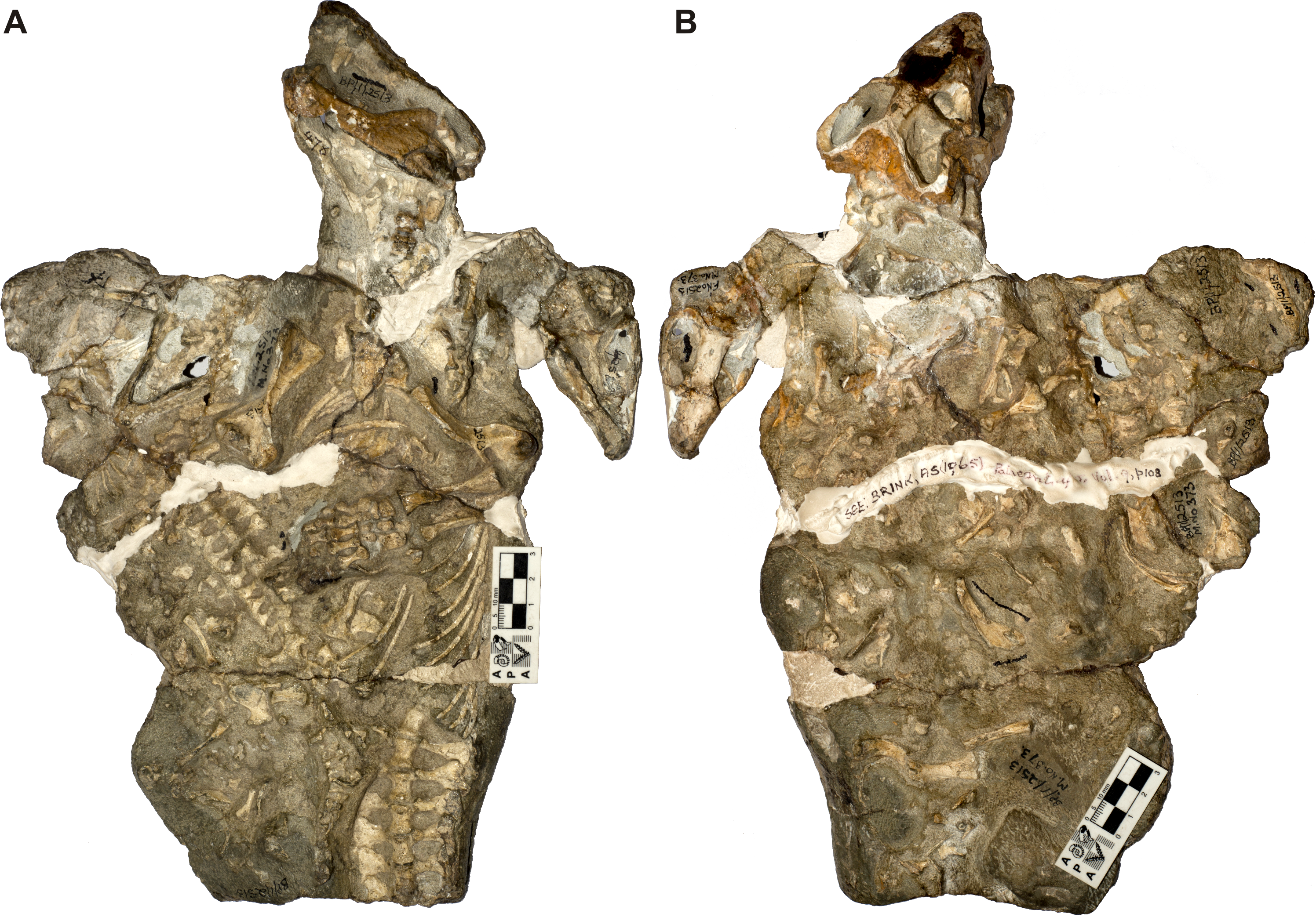 Galesaurus planiceps material in block BP/1/2513 in (A) ventral and (B) dorsal views. Note that the dorsal side (B) has a random assortment of non-mammaliaform bones; however, the skull and scapulae of BP/1/2513A and the skull of BP/1/2513B are visible, and further preparation also uncovered the dorsal part of the skull of BP/1/2513C. For the identification of individuals, see Fig. 4.